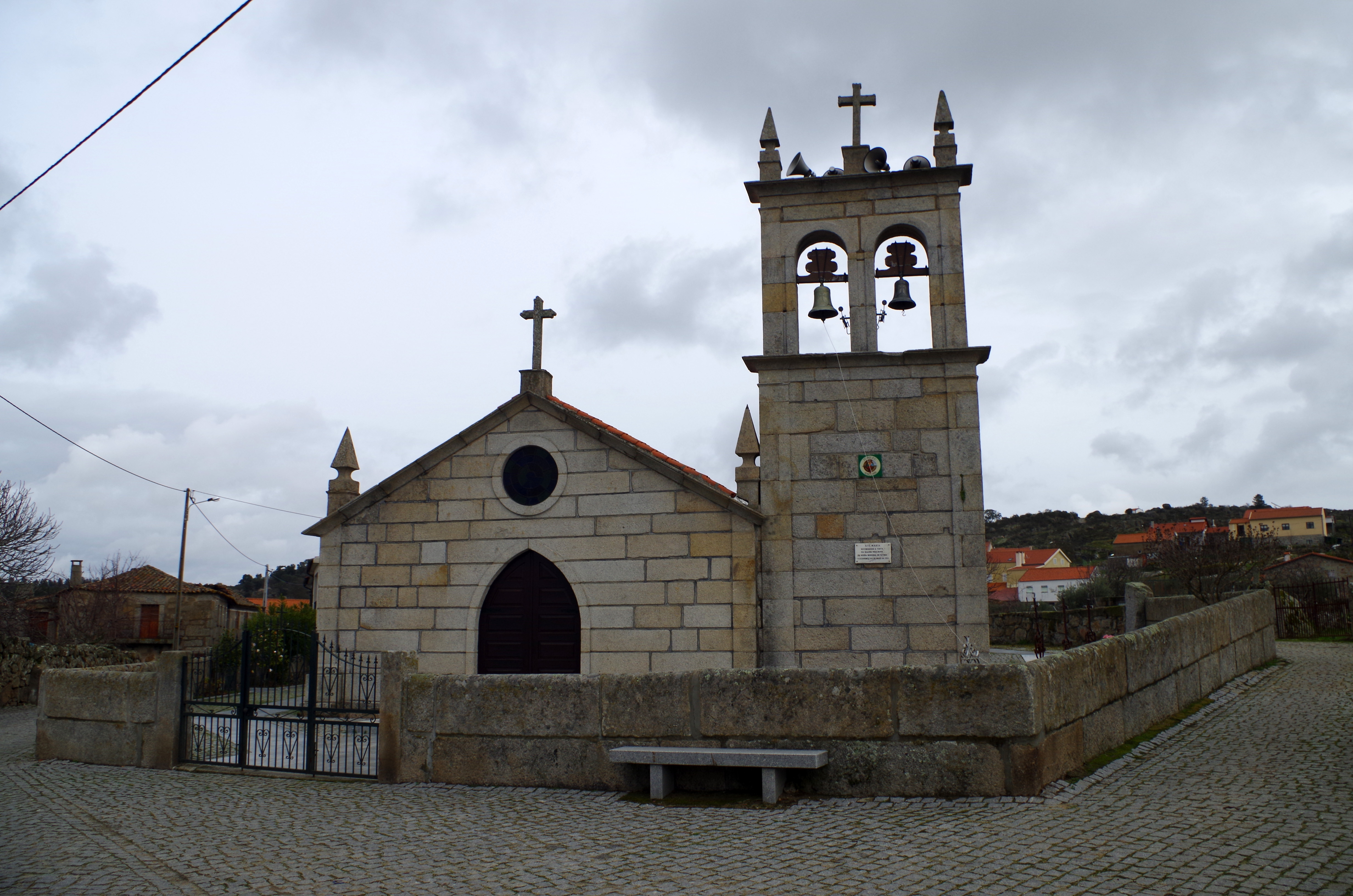 Church in Vascoveiro (Guarda, Portugal).